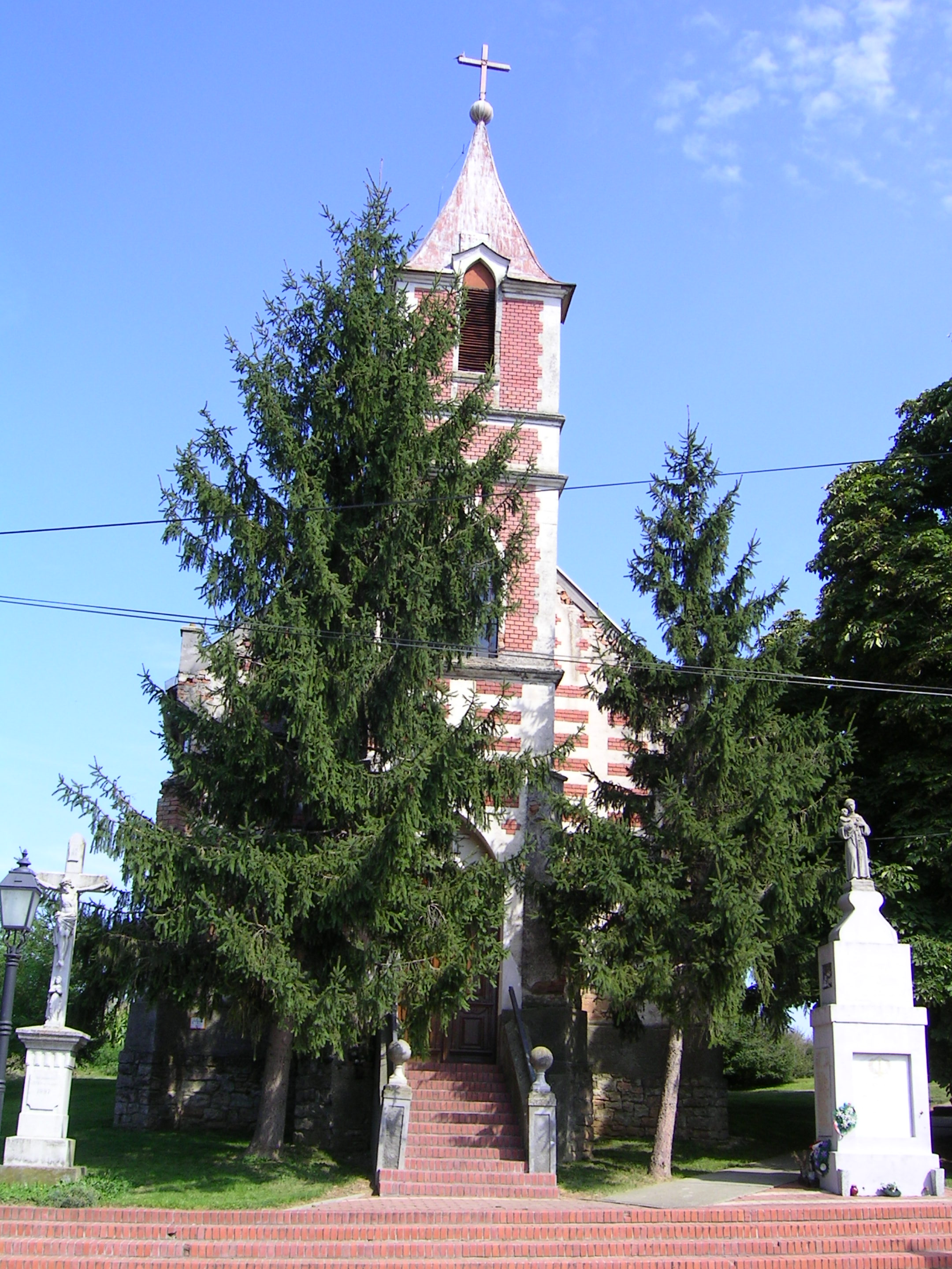 Roman catholic church in Pócsa, Hungary